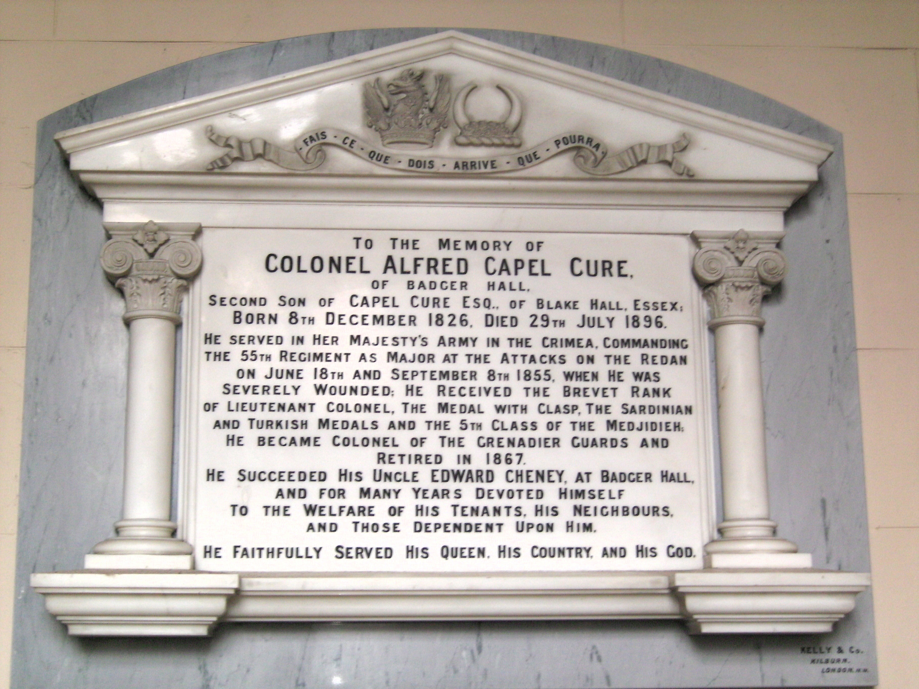 Memorial in St. Giles church to Alfred Capel Cure, lord of the manor of Badger, Shropshire, 1884-96.